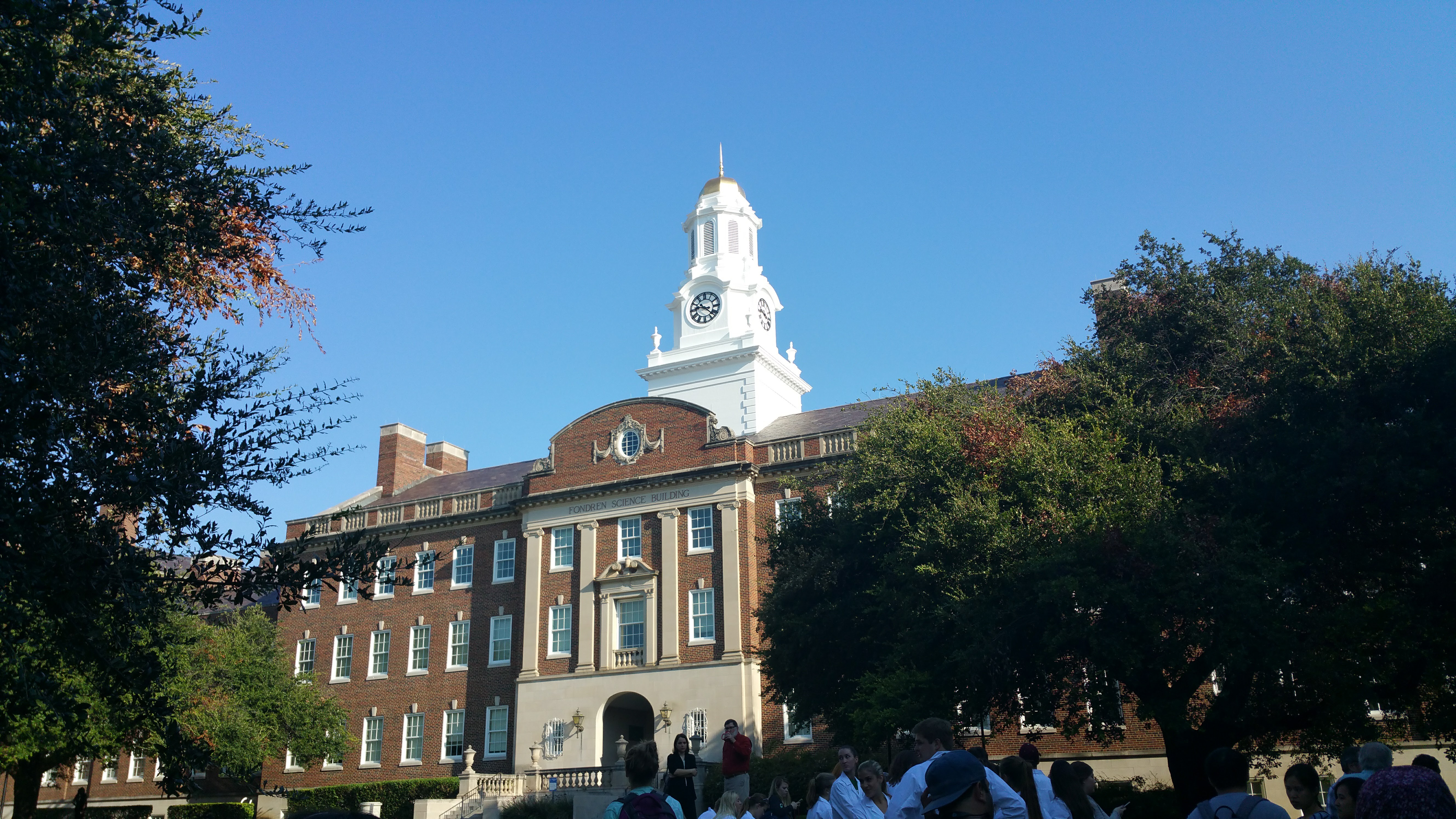 Fondren Science Building at Southern Methodist University. Site of the chemistry and physics departments. Major building in the Dedman College of Humanities and Sciences.